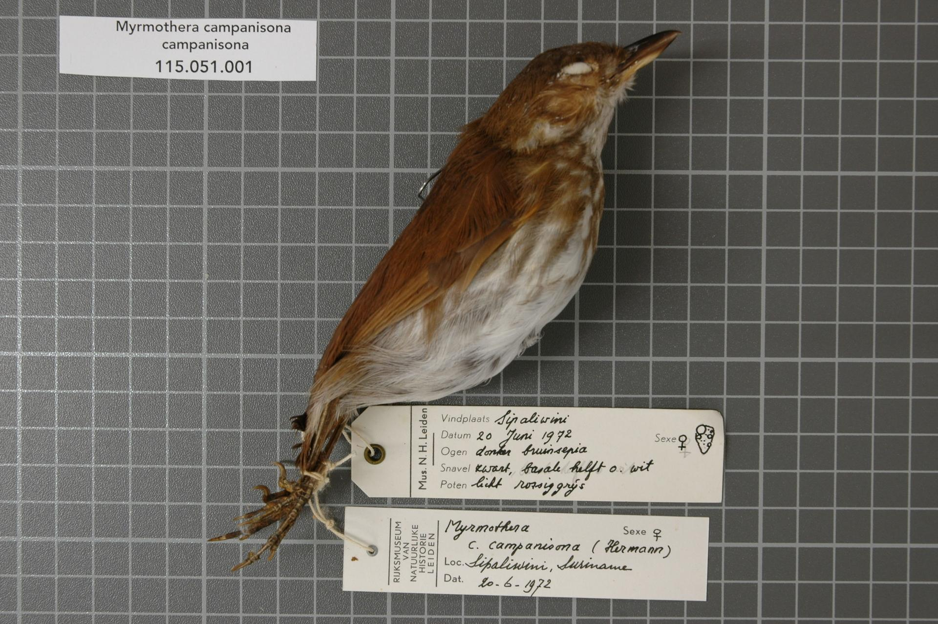 Myrmothera campanisona campanisona (Hermann, 1783)